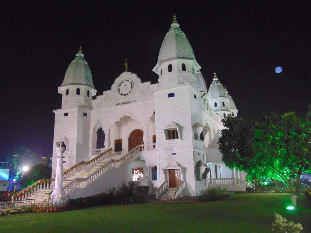 Satsang Vihar Bhubaneswar, Odisha